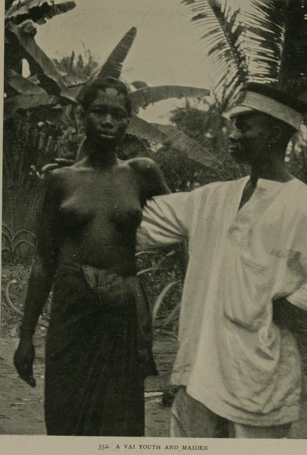 Photo of Vai couple